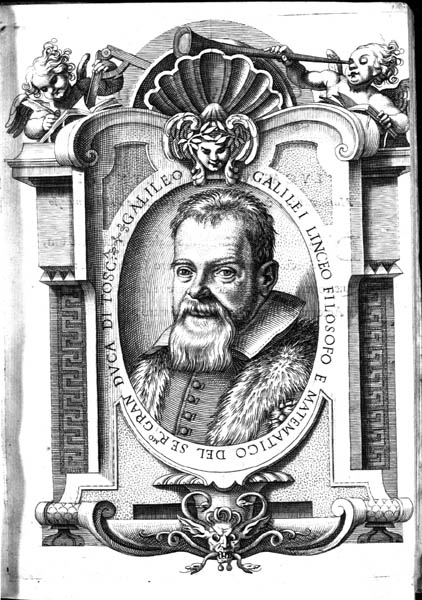 Illustartion in "Istoria e dimostrazioni intorno alle macchie solari e loro accidenti : comprese in tre lettere scritte all'illustrissimo .."